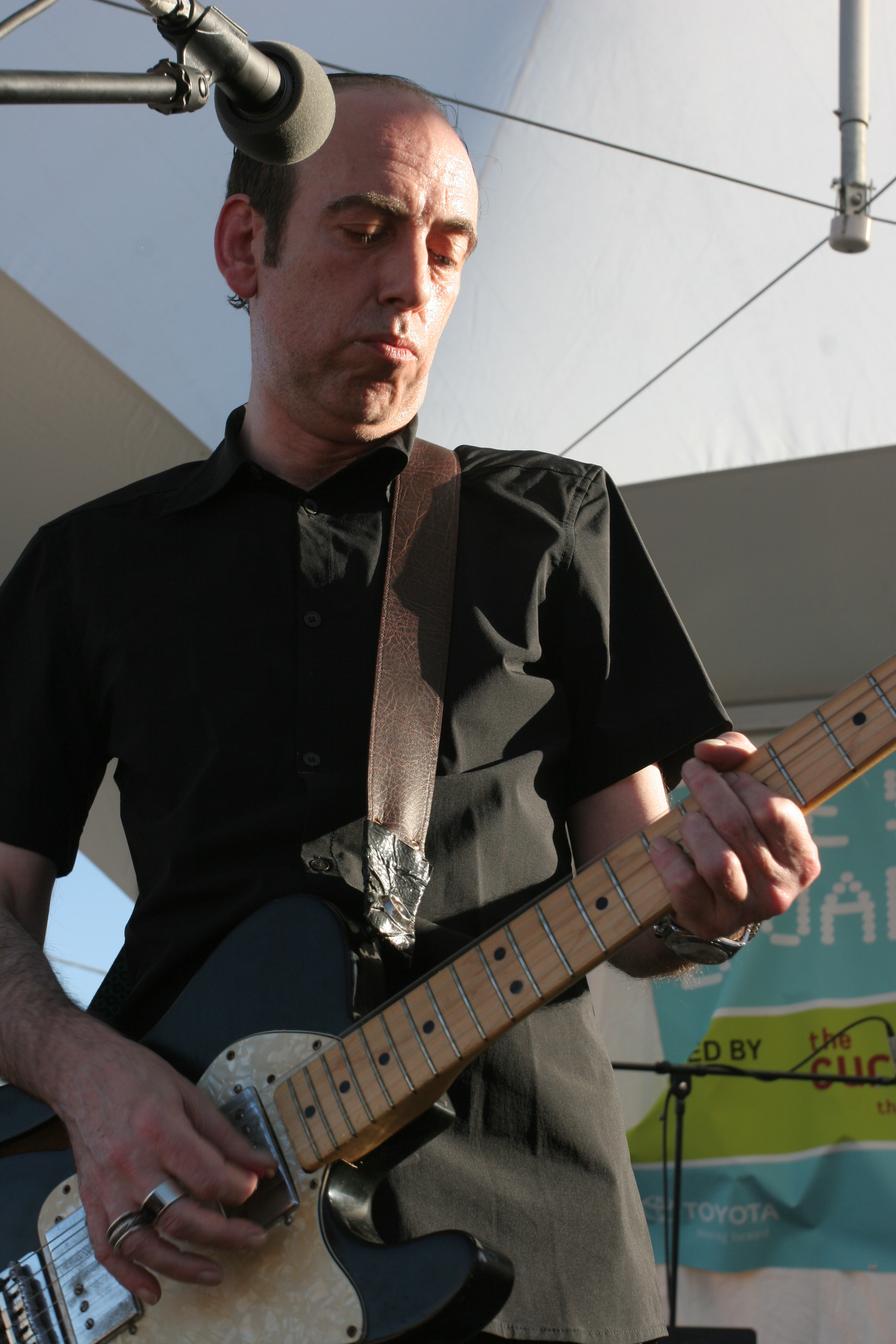 Mick Jones at SXSW08